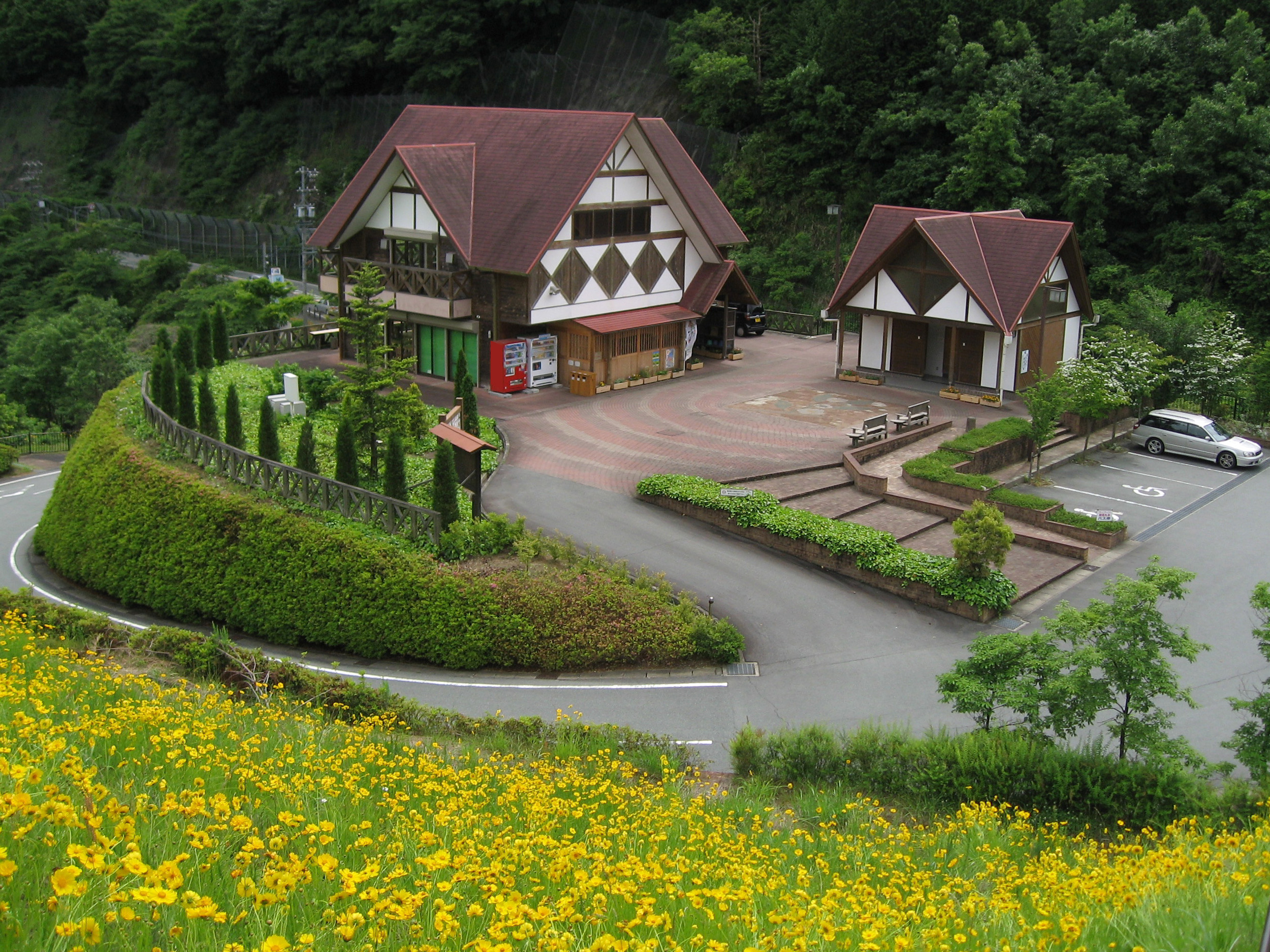 Michinoeki Chakura